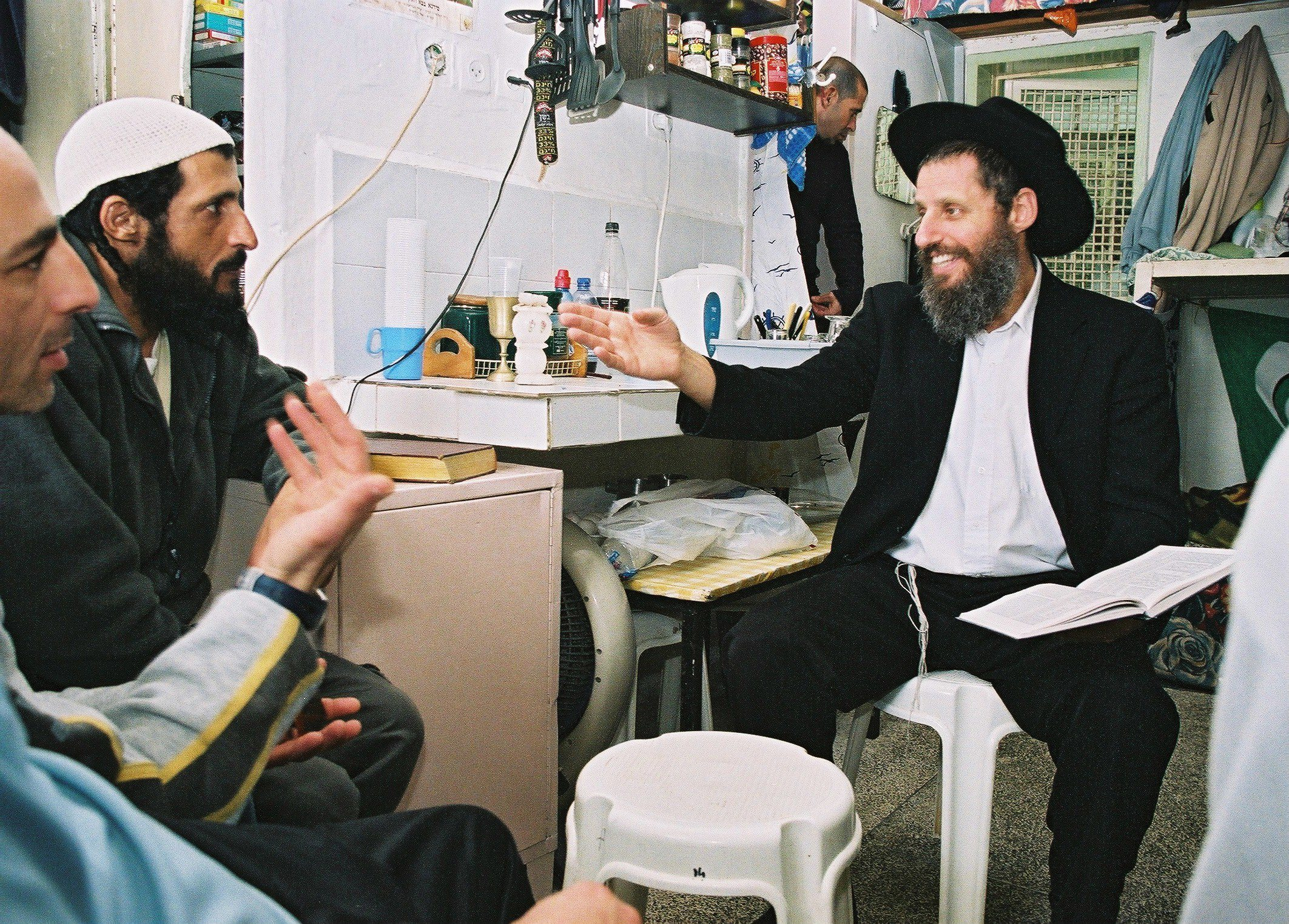 Photo of Rabbi Fishel Jacobs, author of Israel Behind Bars—U.S. Karate Champ Turns Israel Prison Officer, teaching inmates in Israeli Prison.